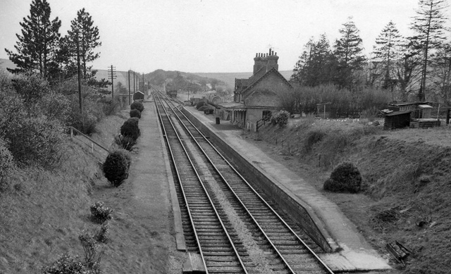 Burghclere Station (remains). View southwards, towards Winchester; ex-Great Western, Didcot Newbury & Southampton Line (Newbury - Winchester section). This station was closed to passengers on 7/3/60 when the services were withdrawn Newbury - Winchester, but remained open to goods until 6/5/63 when the line was closed completely - two weeks after this photograph.